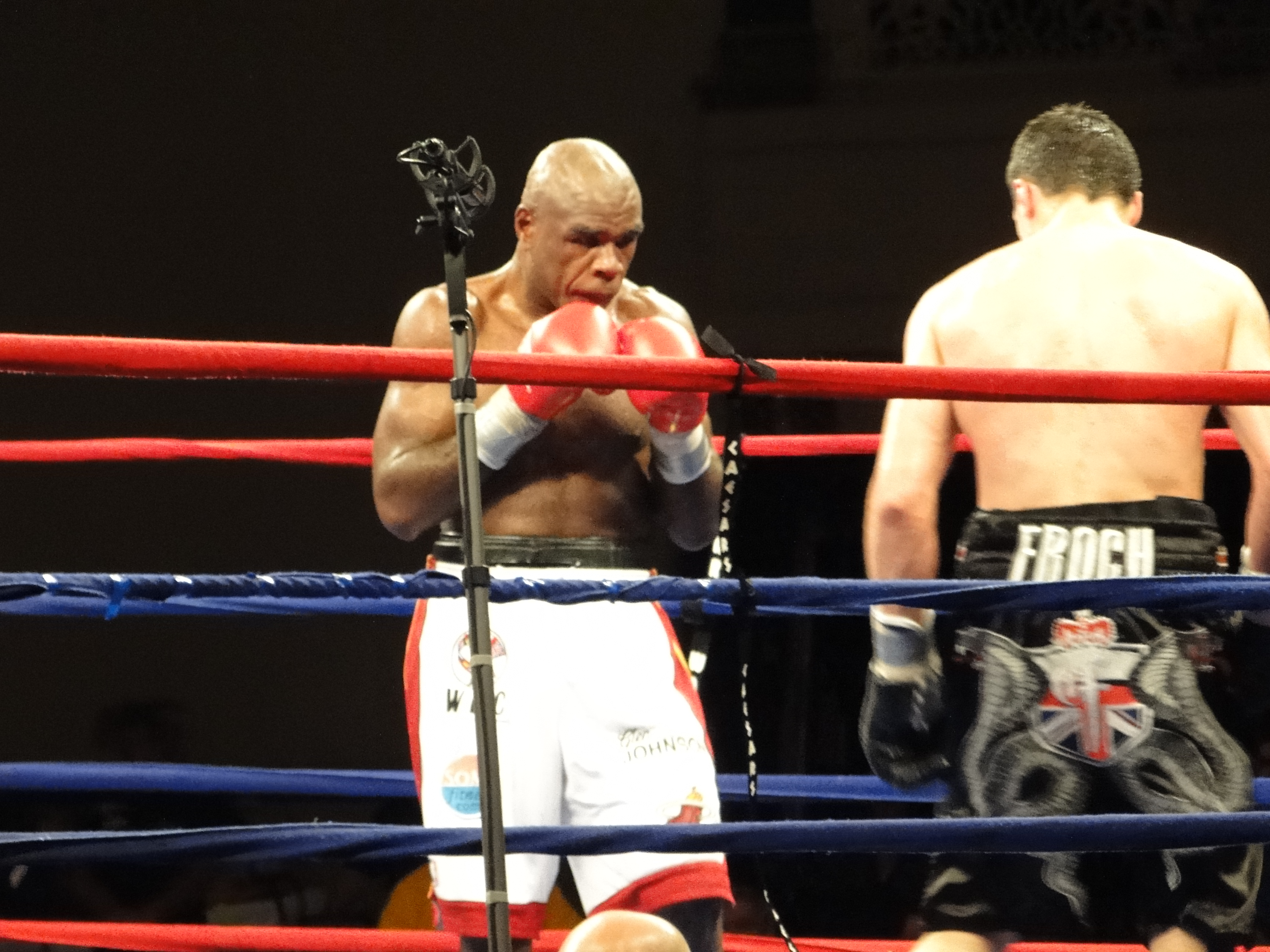 Glen Johnson at the Boardwalk Hall in Atlantic City, New Jersey, United States on June 4, 2011.